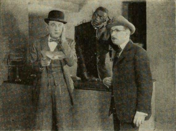 Still from the American film Love Is an Awful Thing (1922) with (from left) Owen Moore, Douglas Carter, and Arthur Hoyt, from page 64 of the November 1922 Photoplay.